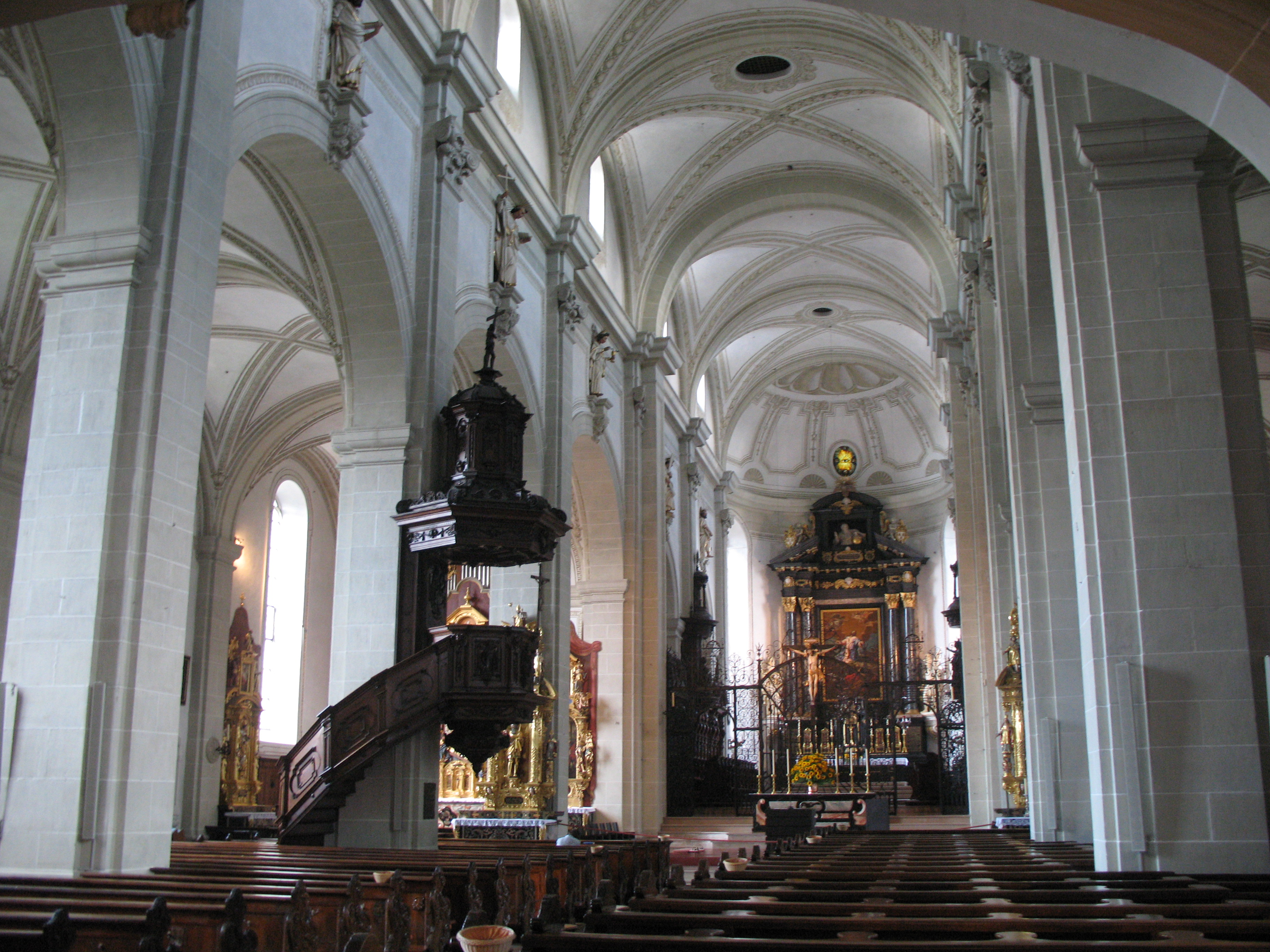 Church of Saint Leodegar, Luzern, Switzerland